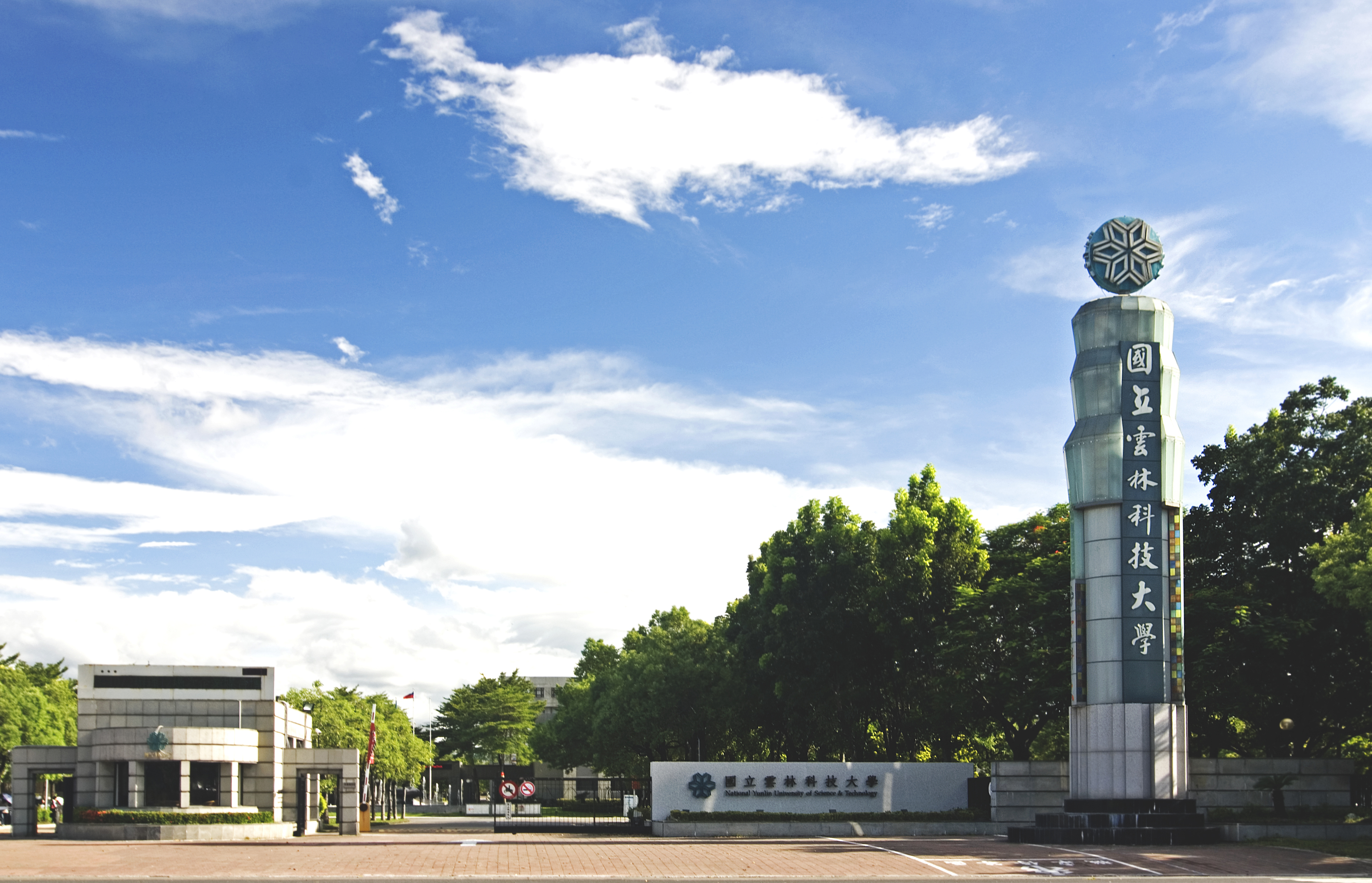 Yuntech